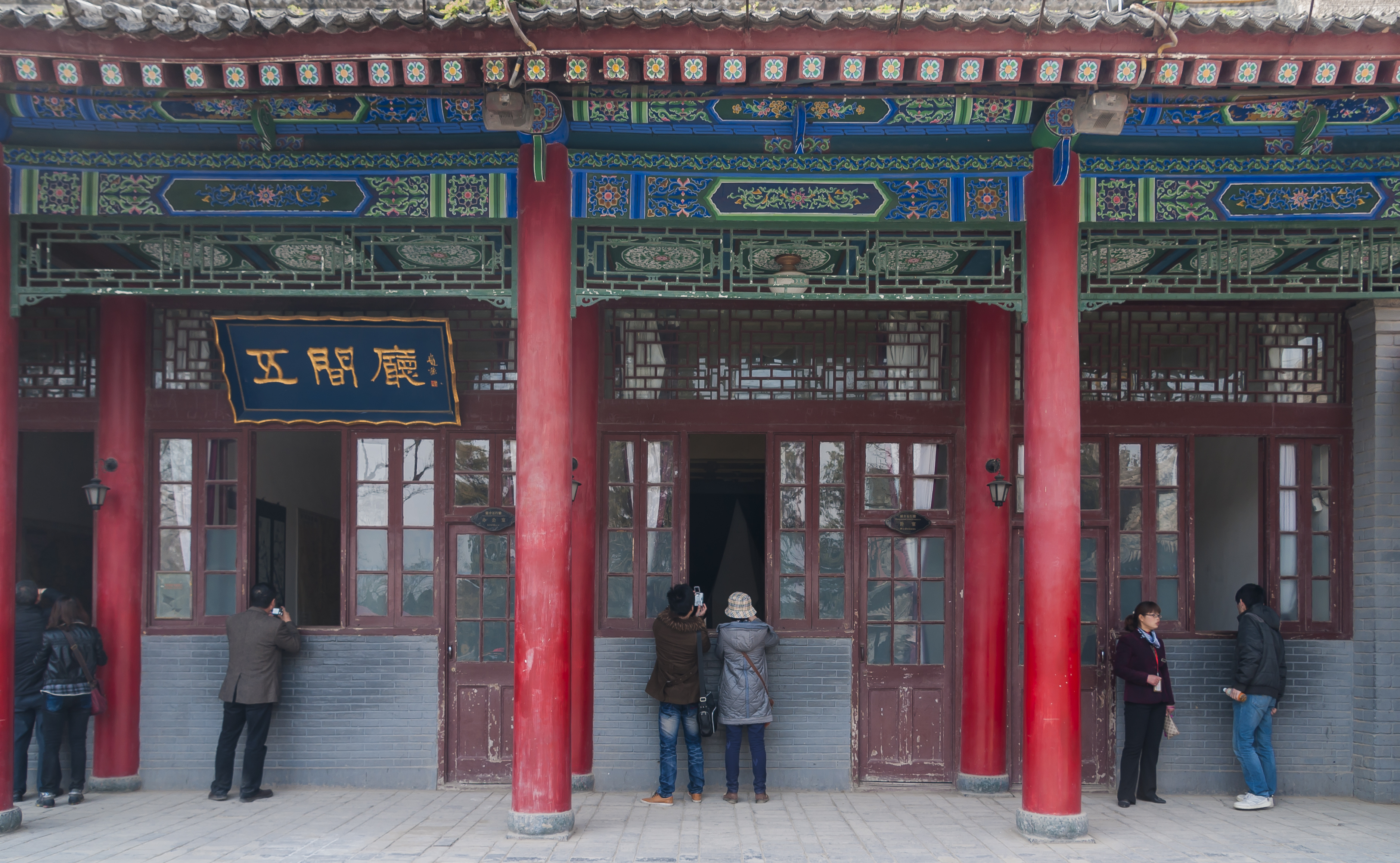 Lintong, Xi'an, China: The 5-room-house at the historical site of Huaqing Pool. It was used as headquarters of the Kuomintang and was also for a short time the living quarter of Chiang Kai-shek